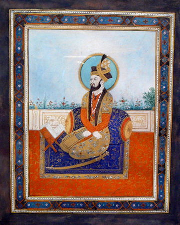 Another later painting of Humayun, 1700's (?); *the whole painting*